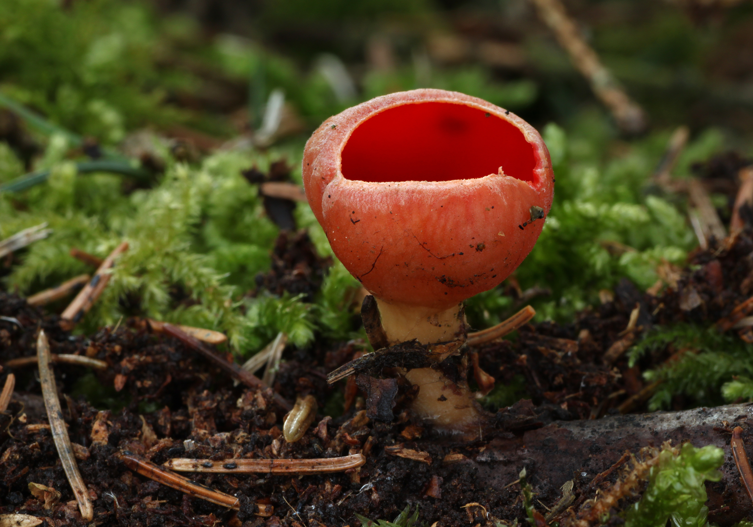 Scarlet Elfcup, Sarcoscypha austriaca syn. Peziza austriaca, Family: Sarcoscyphaceae, Location: Germany, Biberach an der Riss, Ummendorf. Image stacking